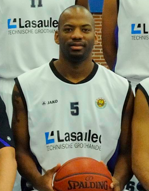 Dutch professional basketball player Tjoe de Paula in 2011, while wearing his Aris Leeuwarden jersey.